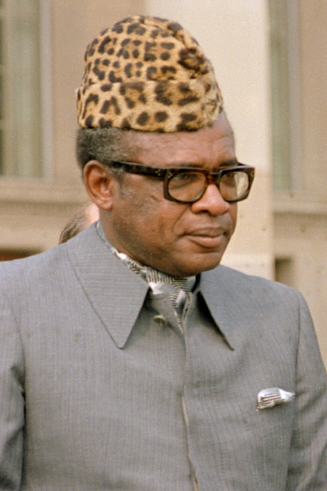 U.S. Secretary of Defense Caspar W. Weinberger meets with President Mobutu of Zaire in his Pentagon office, Room 3E880.